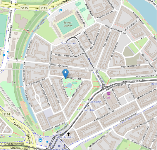 Description This map may be incomplete, and may contain errors. Don't rely solely on it for navigation. AuthorOpenStreetMap contributorsDate (see file history)SourceYou may find a page on the OpenStreetMap wiki page for Spangen, Rotterdam- 2017Permission(Reusing this file) OpenStreetMap data is available under the Open Database License (details). Map tiles are licensed under the Creative Commons Attribution-ShareAlike 2.0 license (CC-BY-SA 2.0). Contains map data © OpenStreetMap contributors, made available under the terms of the Open Database License (ODbL). The ODbL does not require any particular license for maps produced from ODbL data; map tiles produced by the OpenStreetMap foundation are licensed under the CC-BY-SA-2.0 licence, but maps produced by other people may be subject to other licences.Open Database LicenseODbL